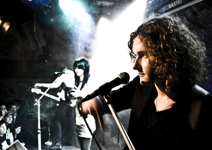 Jennifer Rostock performing (cropped from Image:JR05.jpg)